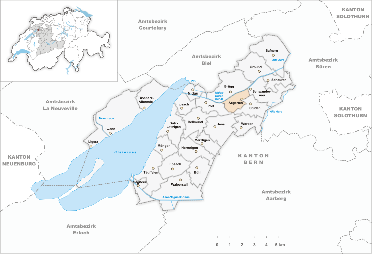 Municipality Aegerten